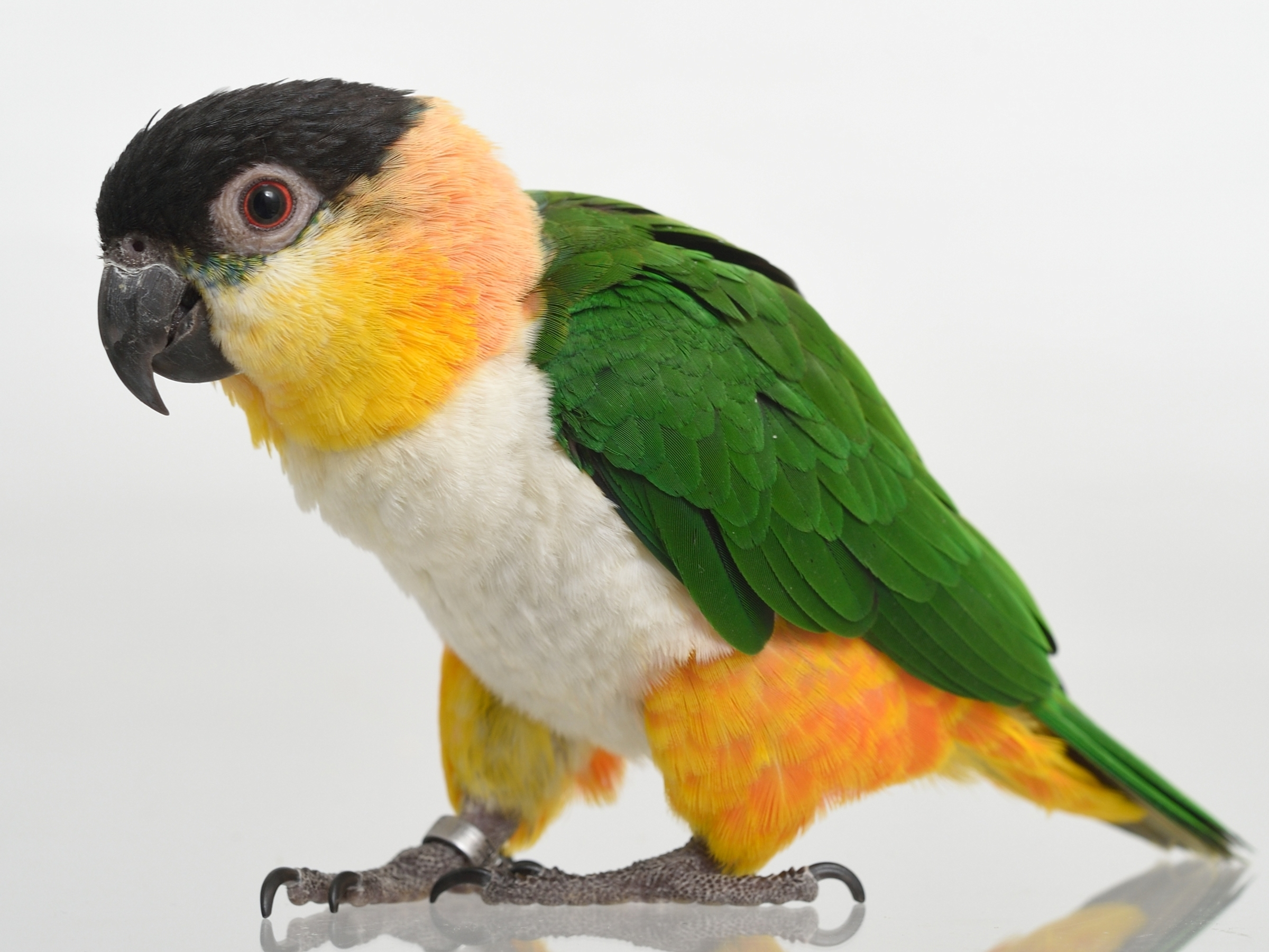 Black-headed Caique , Black-headed Parrot age:4 years and 8 months old weight:140g